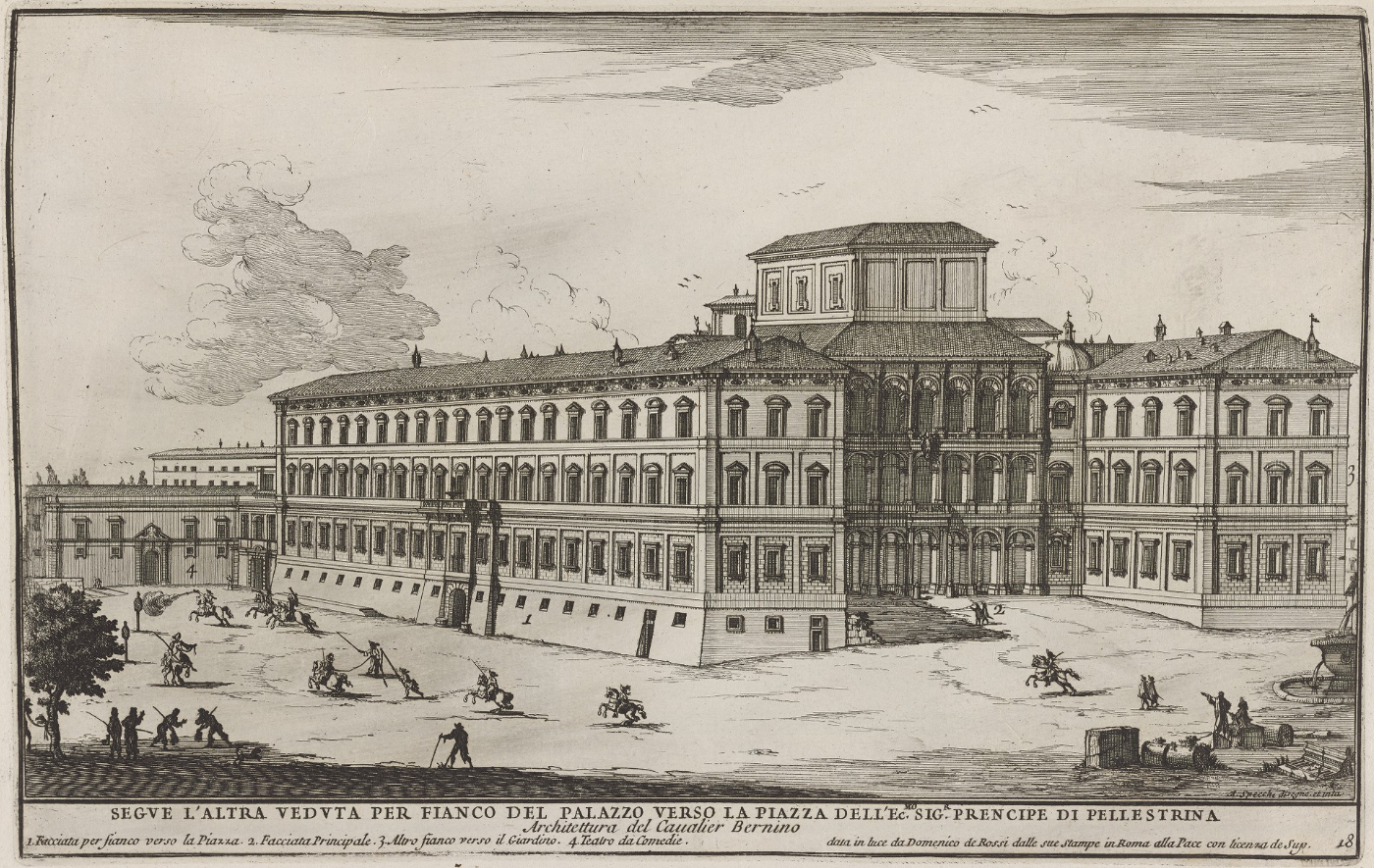 A view of the Palazzo Barberini (from Image 115), including a view of the facade from the front and side (1, 2, and 3 in image), as well as the Teatre da Comedie (4 in image). The Teatre da Comedie saw opera and comedic opera performances throughout the late 17th century.